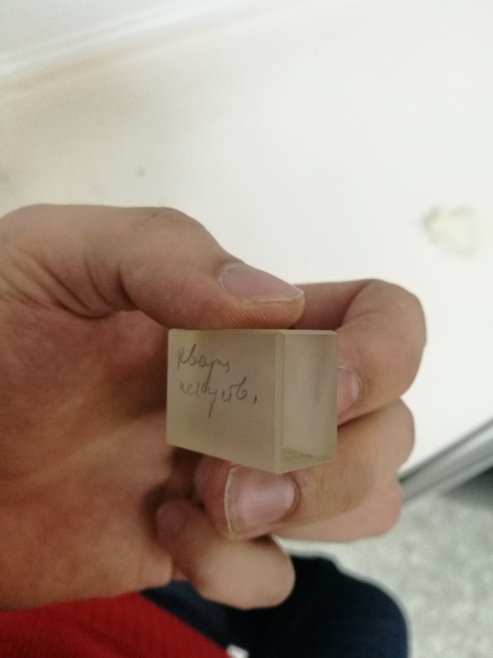 Quartz crystal